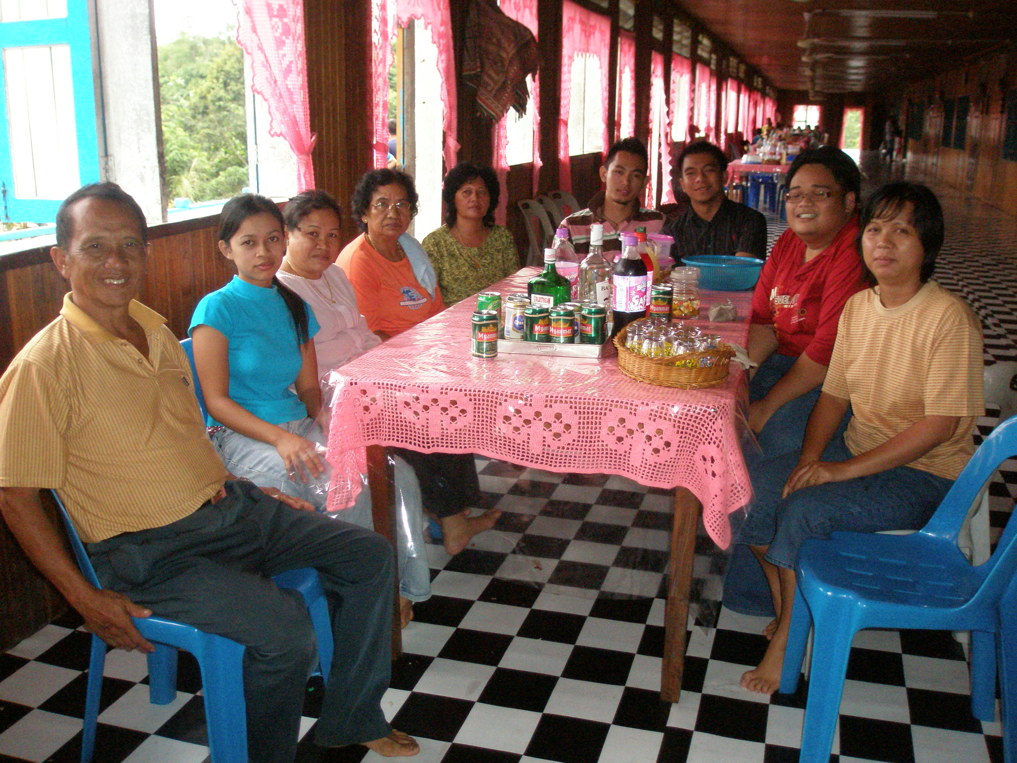 Tuak is widely consumed during Gawai Dayak festival and Christmas Day.